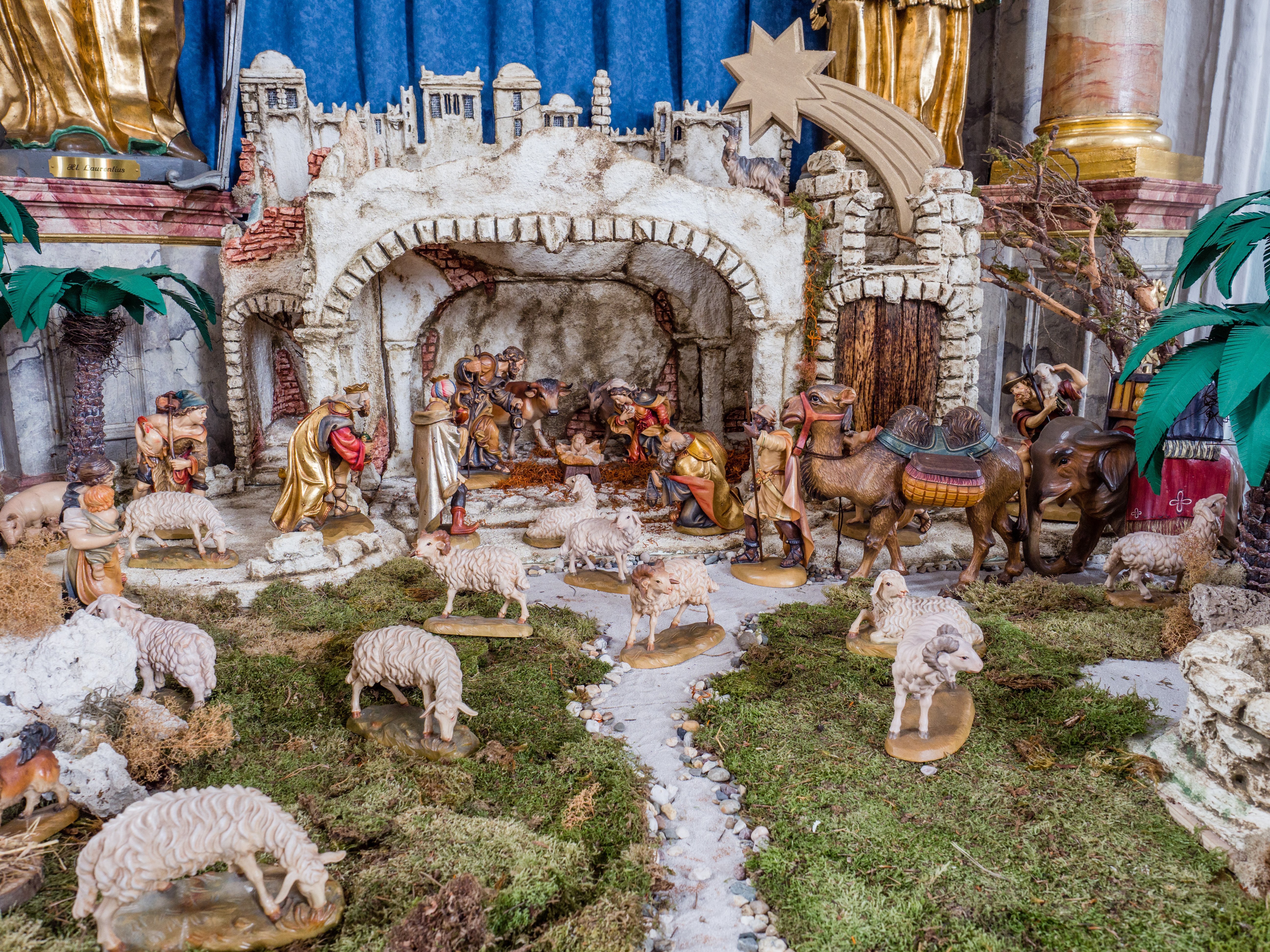 Christmas crib parish Church St. James in Ebing